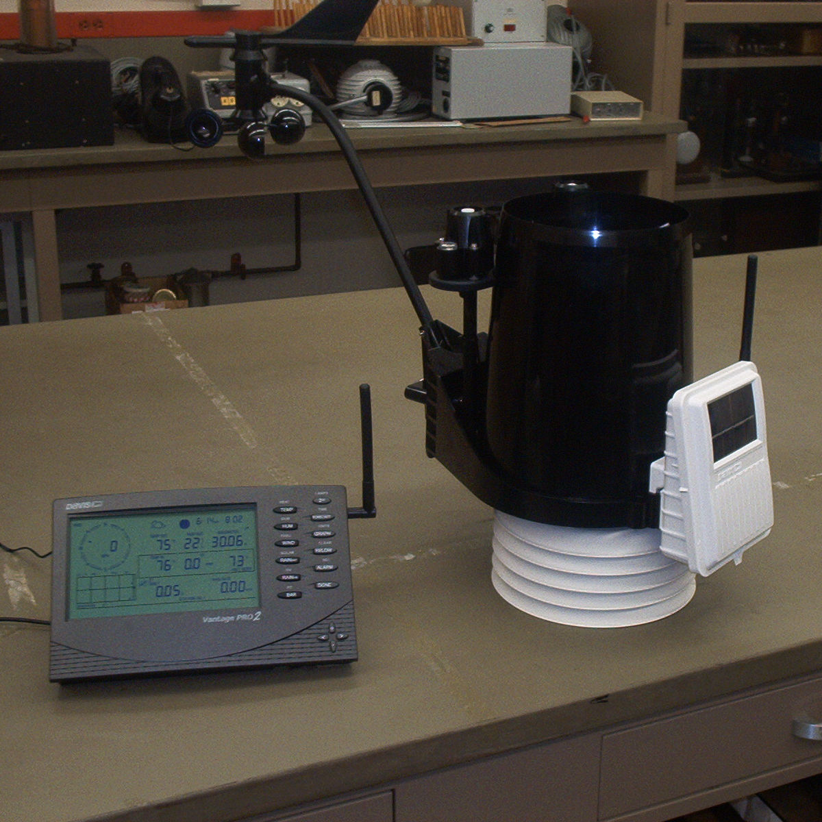 Davis Instruments Wireless Vantage Pro2 Plus weather station.